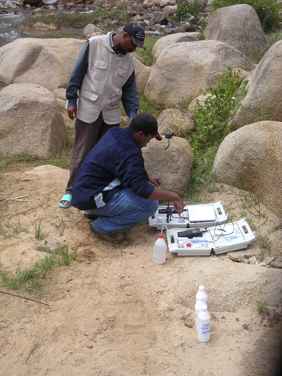 Geology research students from the University of Zimbabwe analysing water sampled from the Mtshabezi River, Thuli Basin.